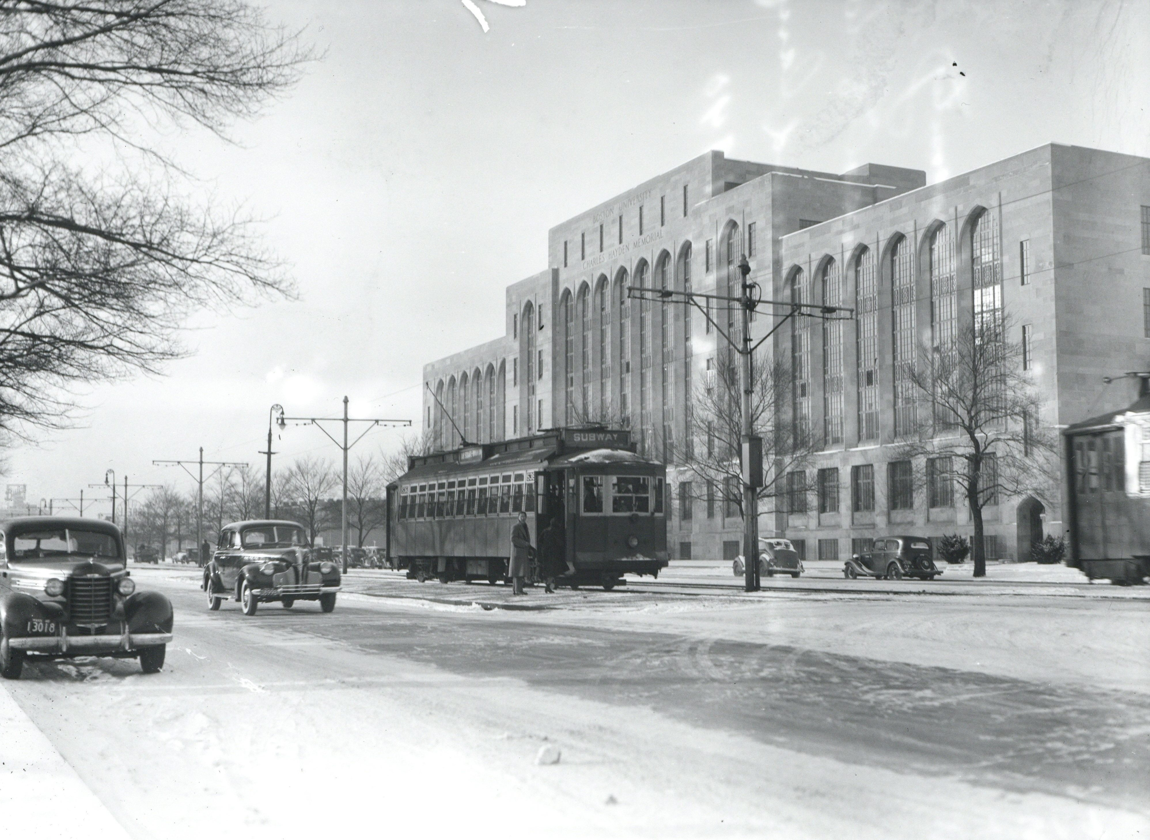 An inbound car from Oak Square (a short turn on the Watertown Line) at Granby Street